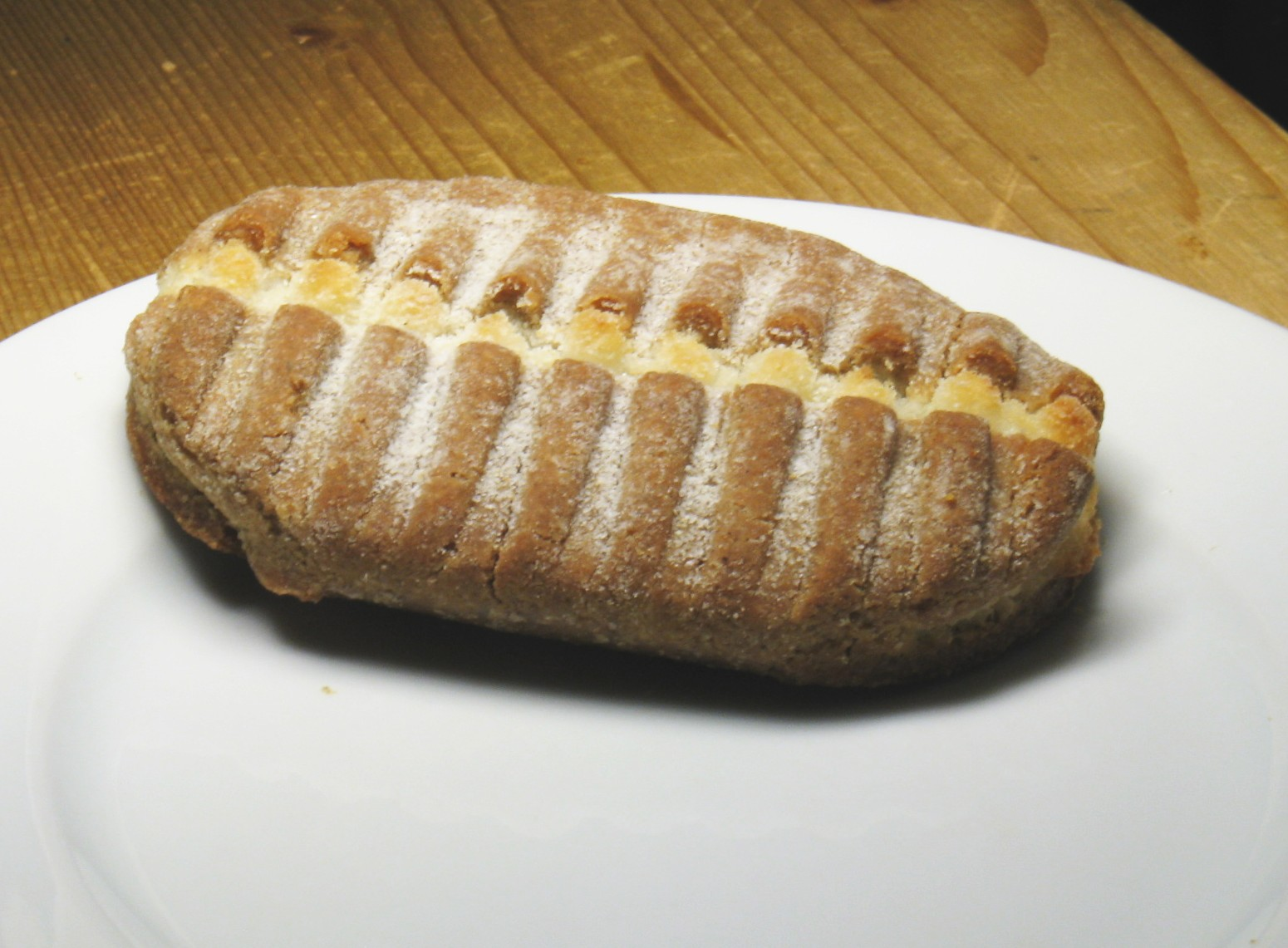 Karelian pasties, made by a machine in a factory